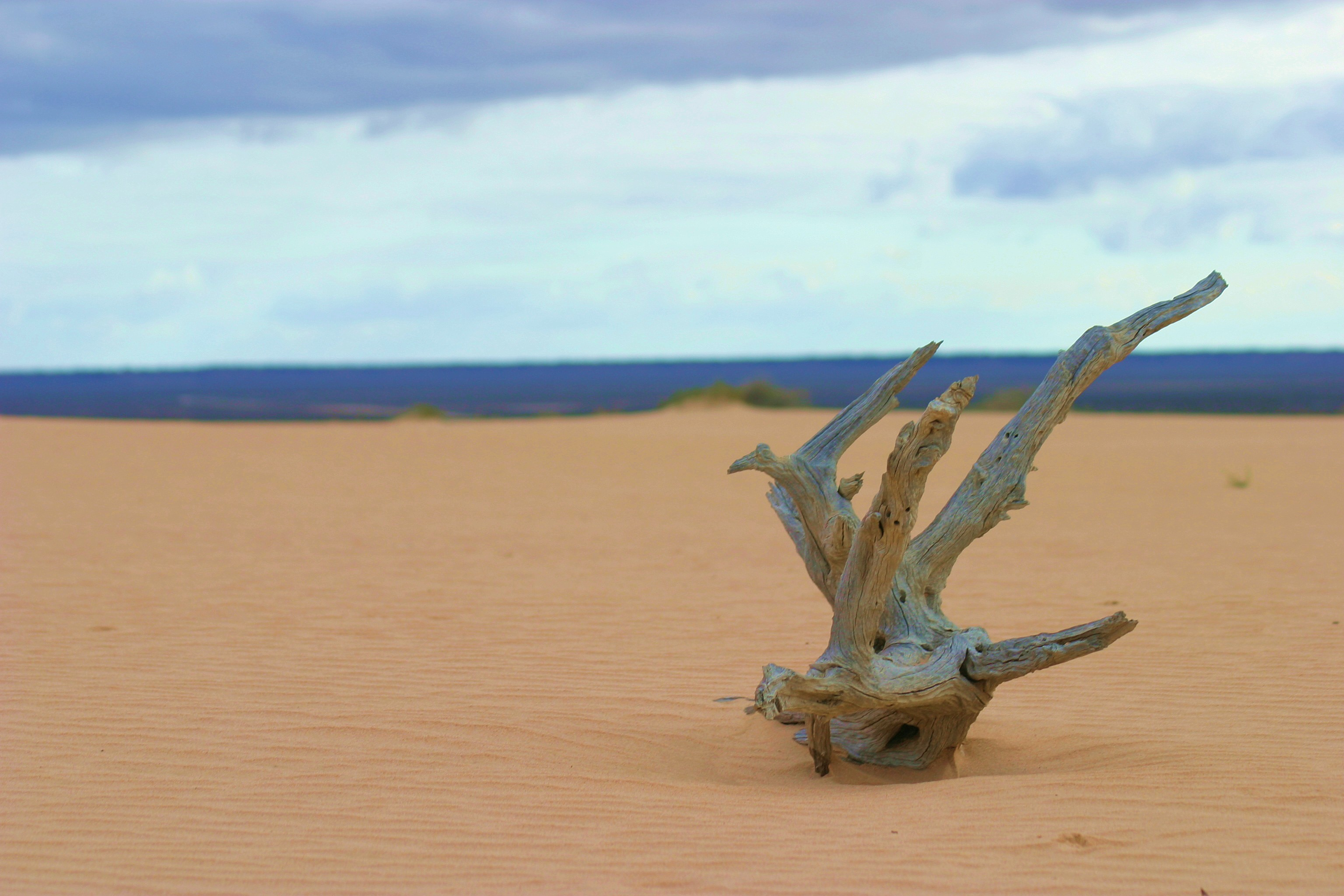 Mungo National Park sand dune. June 2005. Lambard, Christina.